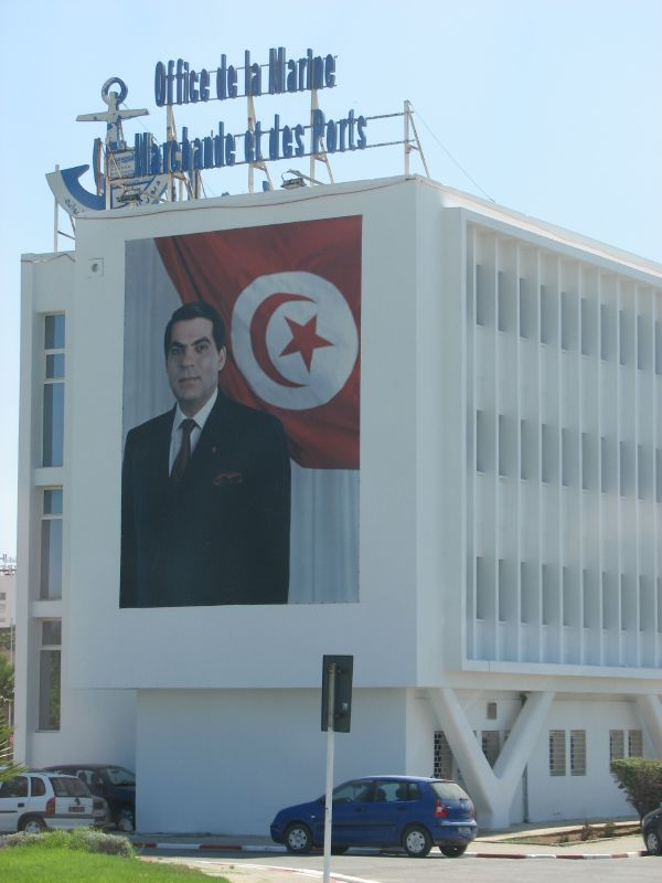 Tunisian Office of Merchant Navy and Ports building with a picture of president Ben Ali